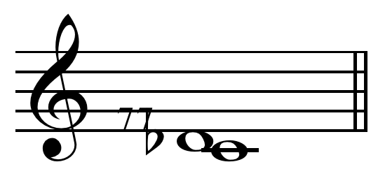 Septimal diesis on C = D♭ (Ben Johnston's notation). 49:48 = 35.7 cents. Limit: 7-limit.